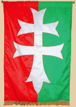 Flag from the Chevalry order of Saint Stephen of Hungary